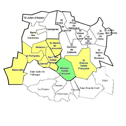 map of Moissac Vallée Française